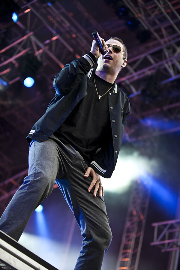 M. Shadows of Avenged Sevenfold, live in Bergen, Norway - 2011